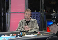 Dicken finished fifth in the Fourth Annual Five Diamonds WPT Championship at the Bellagio in Las Vegas.(cropped)